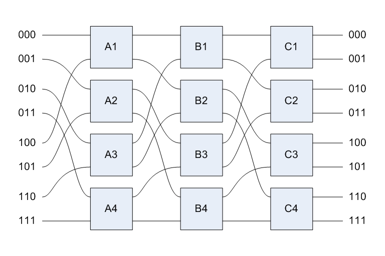 A graph of an 8 PE omega network.